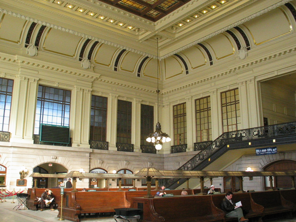 Waiting room of the Hoboken Terminal/